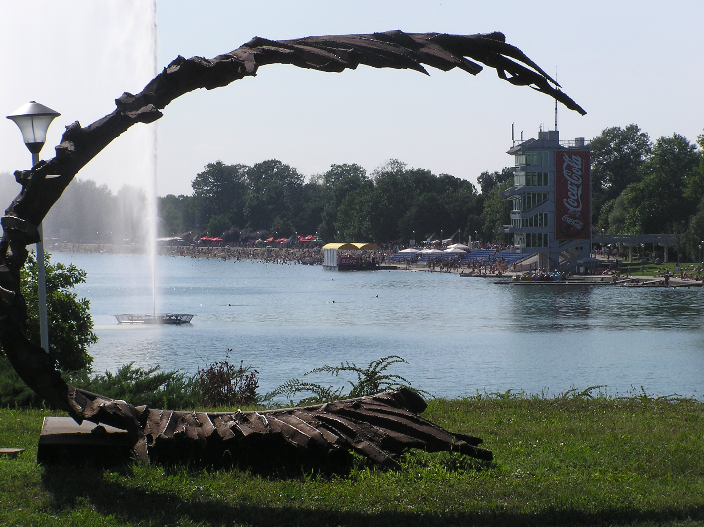 Ada Ciganlija, an island in the Sava river